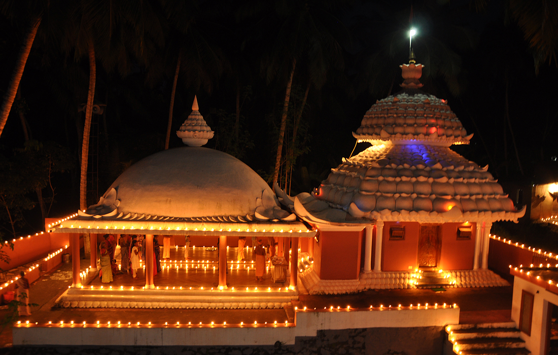 Karthigai Deepam Celebration at the Thirunizhal Thangal Attoor, 16-11-2013